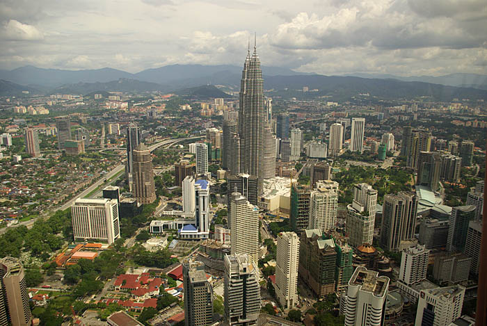 View to Golden Triangle from KL Tower